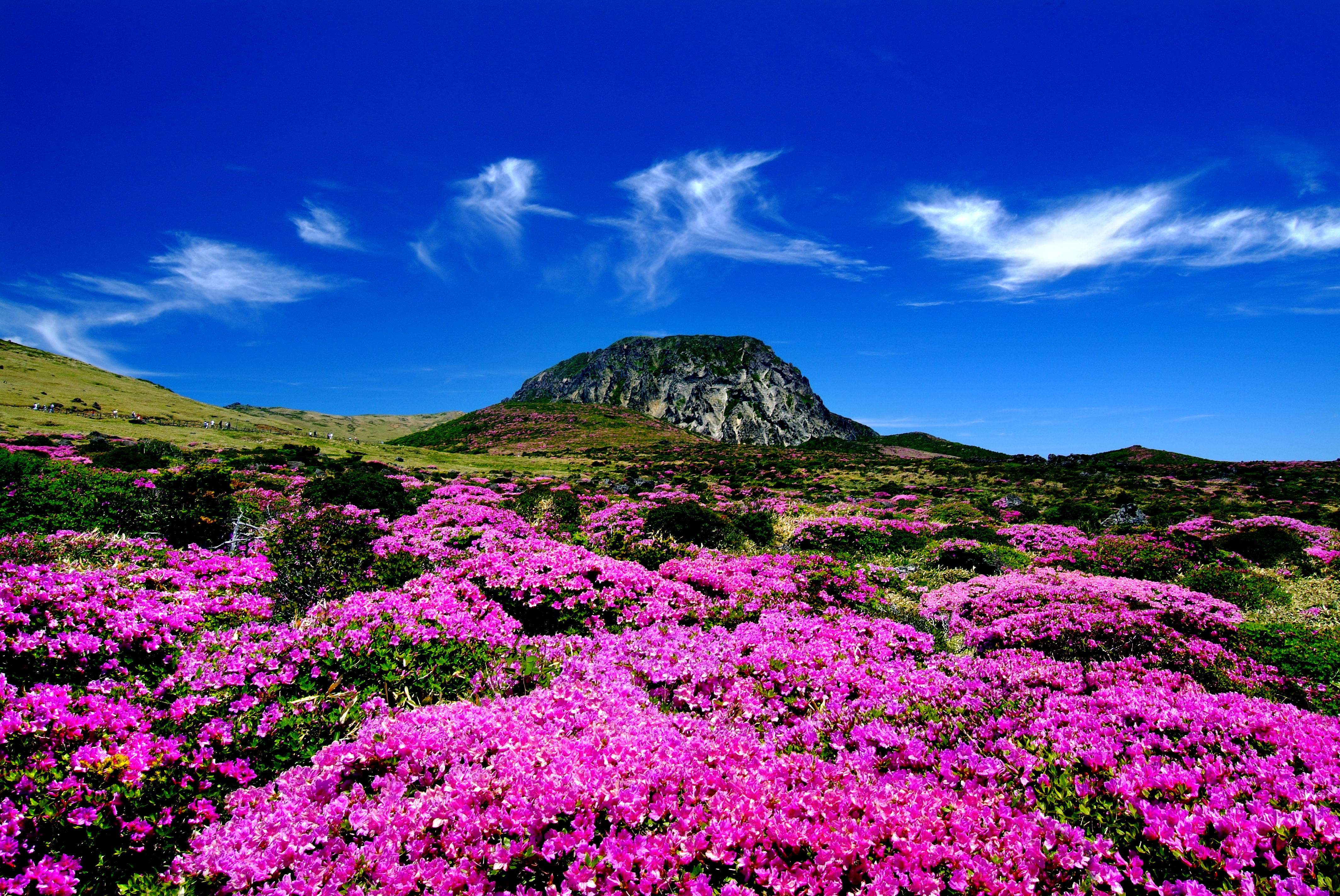 Hallasan is a massive shield volcano which forms the bulk of Jeju Island and is often taken as representing the island itself.